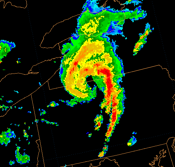 MCS with eye over Pennsylvania